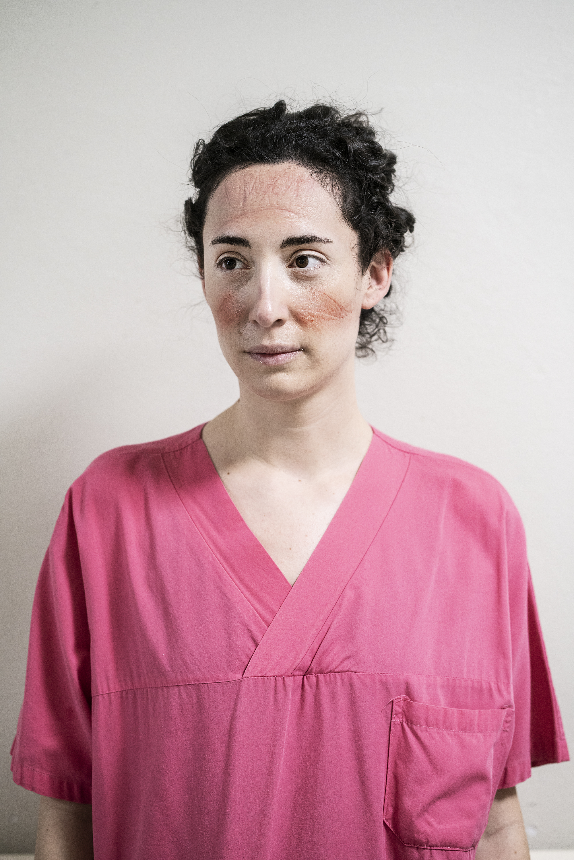 These are the doctors and nurses of the San Salvatore Hospital in Pesaro, Italy, the city of my birth and where I once again reside, which from day one has sadly been at the top of the COVID-19 contagion and death charts. I photographed them at the end of their shifts—twelve hours without a break during their fight in an unequal war. In the quiet moments in front of my camera, these embattled individuals are in a state of total abandon, victims of an exhaustion that eats away at the body and the mind, a breathlessness that renders one disoriented, detached from time and space. They would take off their masks, caps, and gloves in front of my lens, remaining motionless, looking for some sort of normalcy amid the hell they were living.